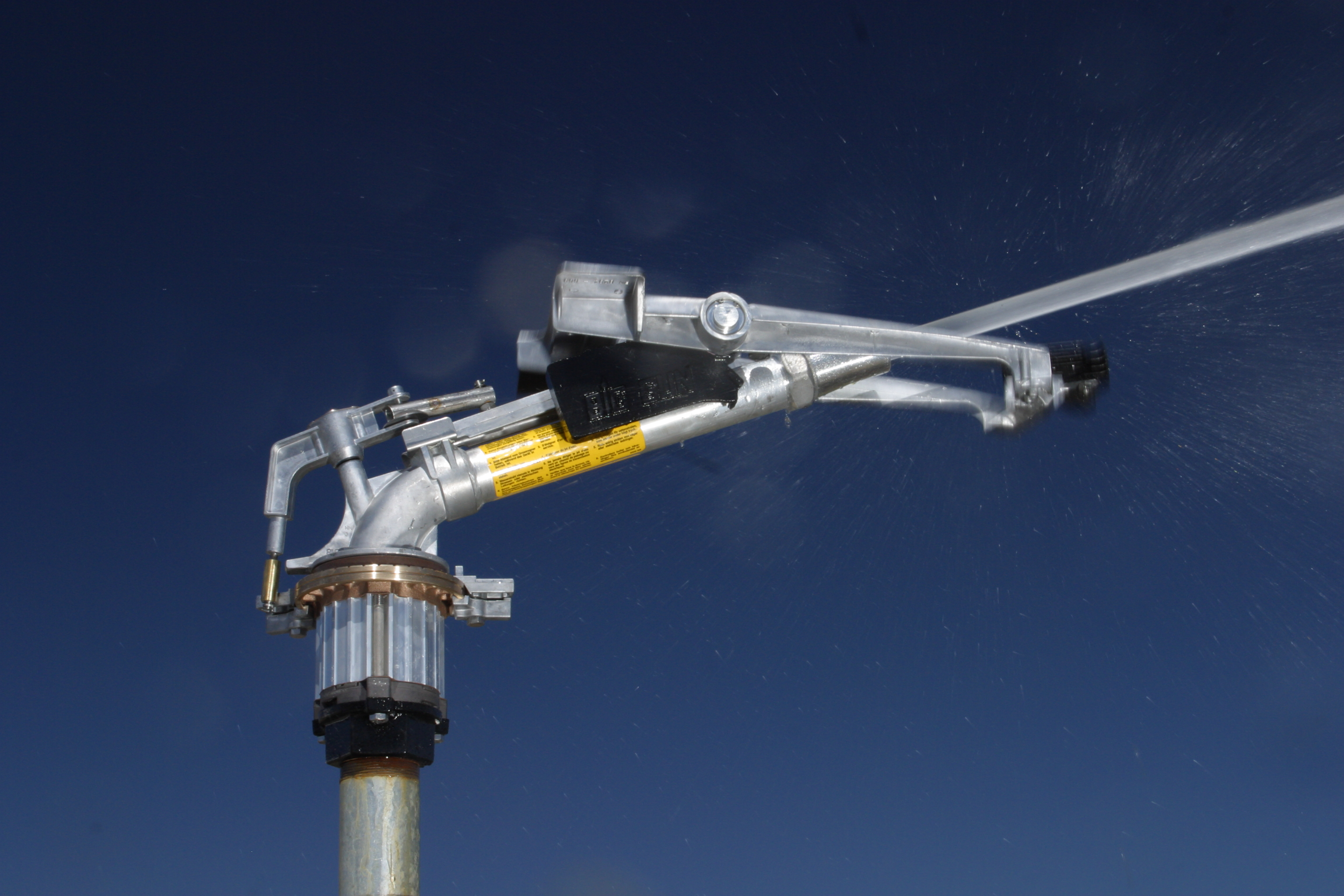 A popular style Big Gun sprinkler commonly used on the end of center pivot and linear irrigation systems. This is a Nelson Irrigation SR100 Big Gun sprinkler.